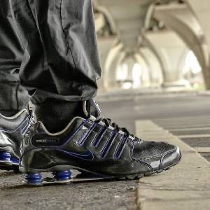 A pair of Nike Shox NZ